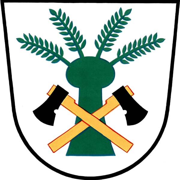 Municipal coat of arms of Vrbka village, Kroměříž District, Czech Republic.